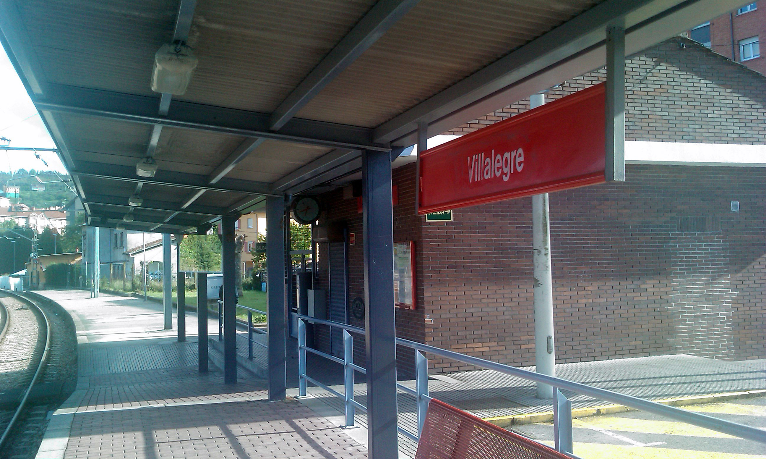 Train Station in Villalegre, Avilés, Asturias, Spain.